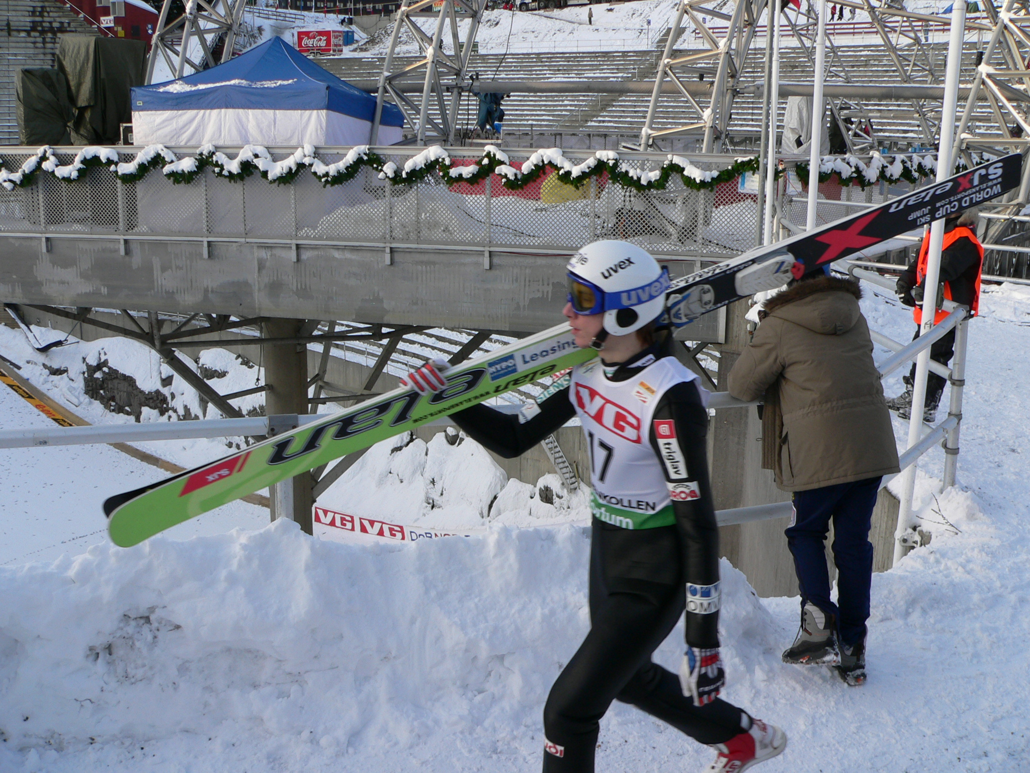 From the 2005 World Cup ski jumping event in Holmenkollen.